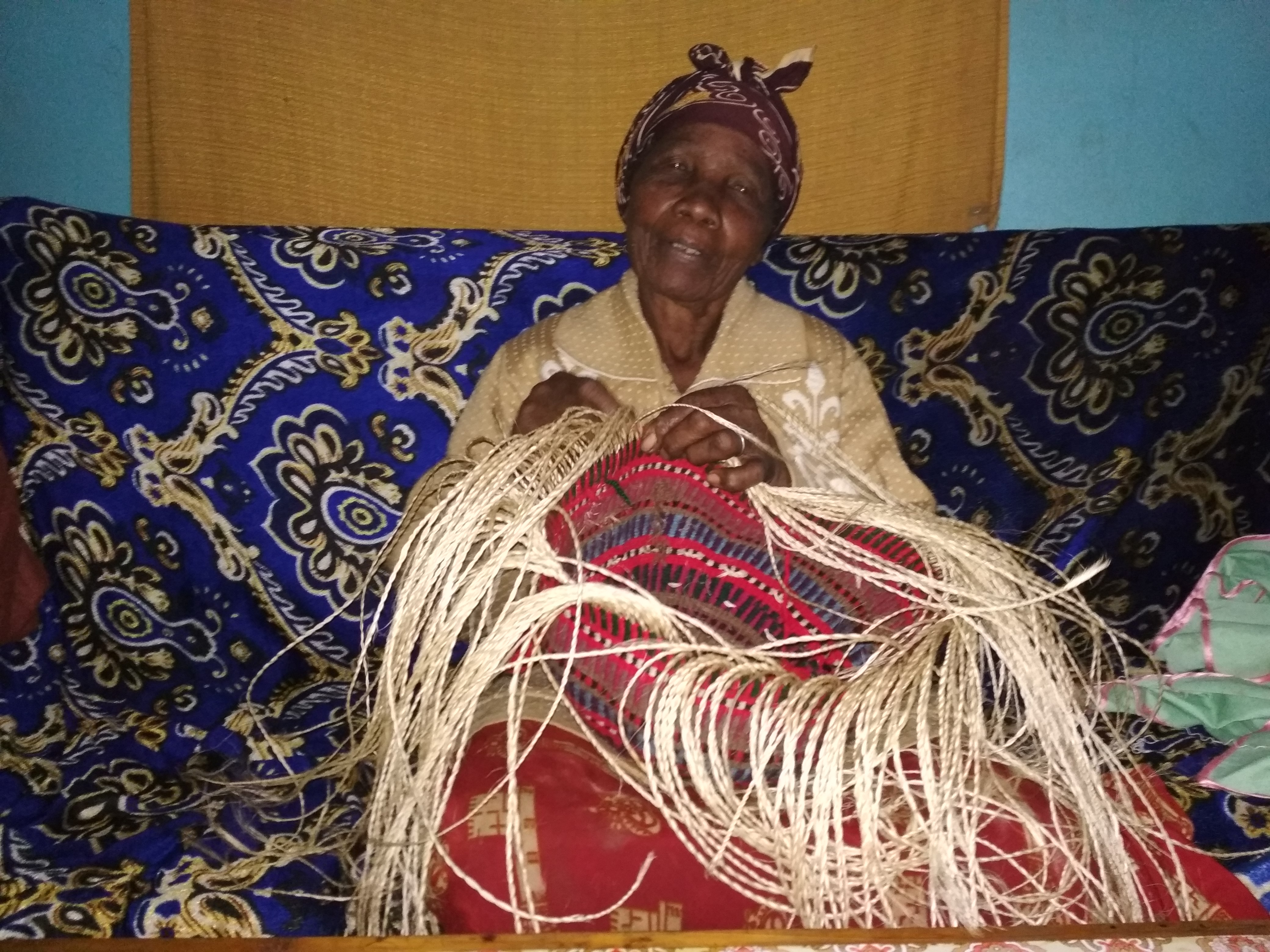 An old woman weaving a basket,in our native language the basket is called a 'kiondo'. This is an image of "African people at work" from Kenya